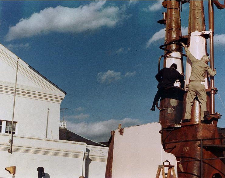 Navy Memorial Museum, Washington Navy Yard, D.C. Naval Reservists painting the USS Balao (SS-285) conning tower fairwater ("sail"), which was exibited in front of the museum, Spring 1975. The color used was pink, in honor of Balao's starring role as the "pink submarine" in the 1959 motion picture "Operation Petticoat". The pink paint lasted a few months, until the humor wore thin, after which standard Navy grey came back in vogue.